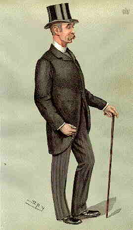 Caricature of Arthur Wellesley, 4th Duke of Wellington. Caption read "Stratfield Saye".